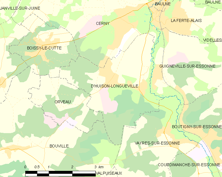 Map of French municipality D'Huison-Longueville